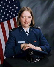 Official Air Force academy photograph of Second Lieutenant (then Cadet) Katrina Mumaw, a United States Air Force Academy graduate and accomplished pilot who holds several records in aviation.